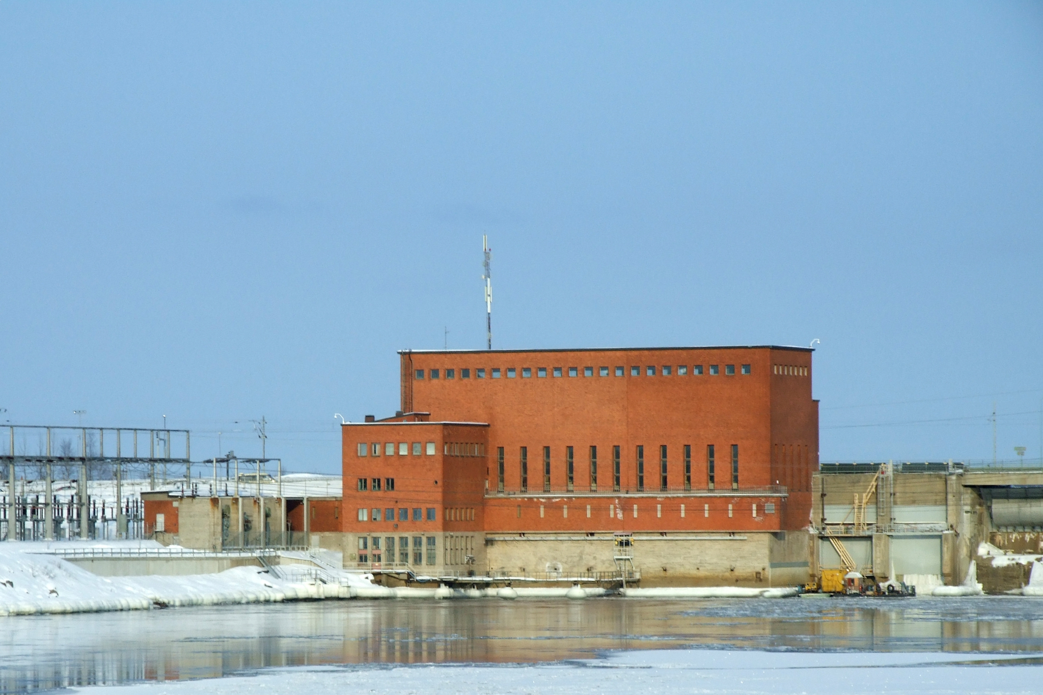 Isohaara hydroelectric power plant on the river Kemijoki in Kemi, Northern Finland}. The plant was designed by architect Sigurd Frosterus and completed in 1949. The current capacity is 106 MWe.